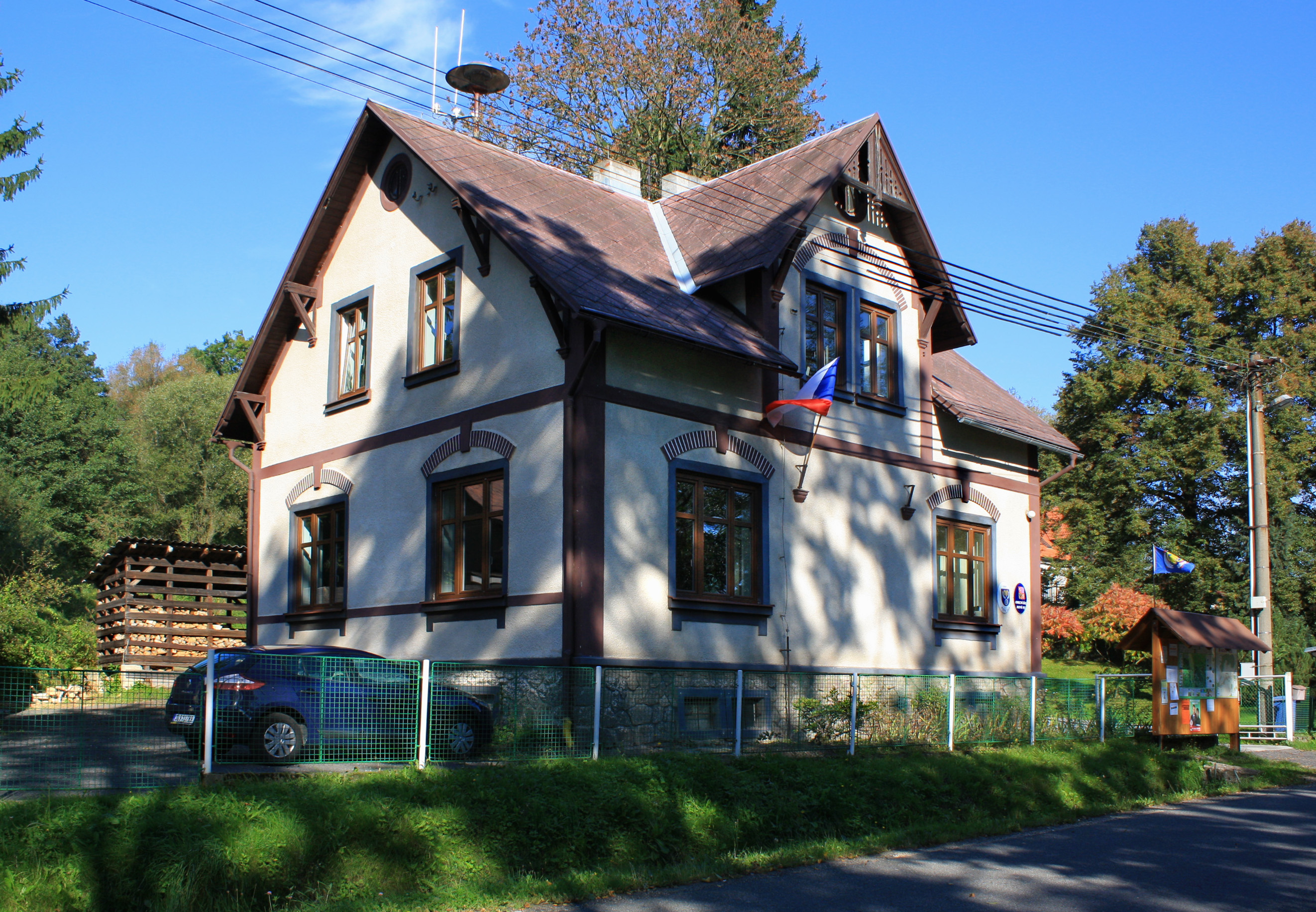 Municipal office in Nová Ves, Czech Republic